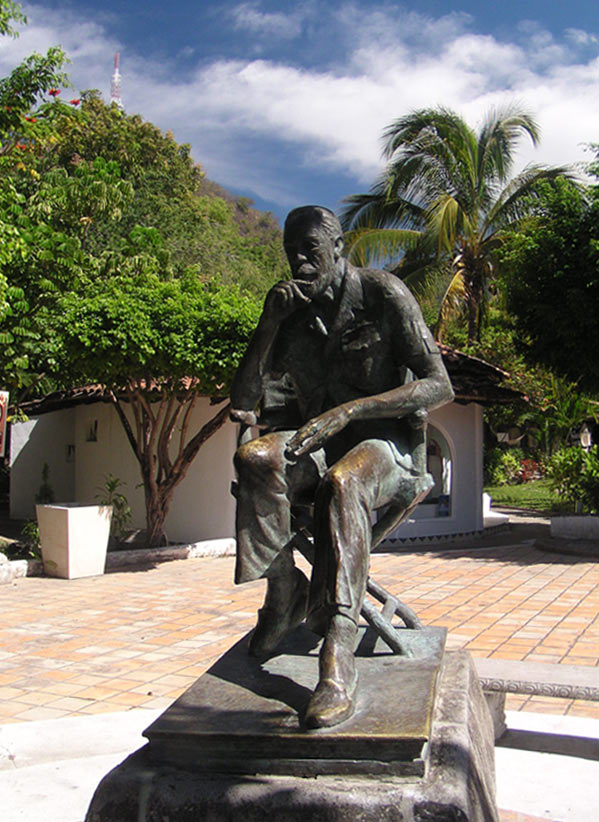 A statue of film director John Huston, sitting in his director's chair — in Plaza John Huston of Puerto Vallarta, western Mexico. Several of Huston's more renowned movies were filmed in Puerto Vallarta, where he also had a residence. photo by Einar Einarsson Kvaran